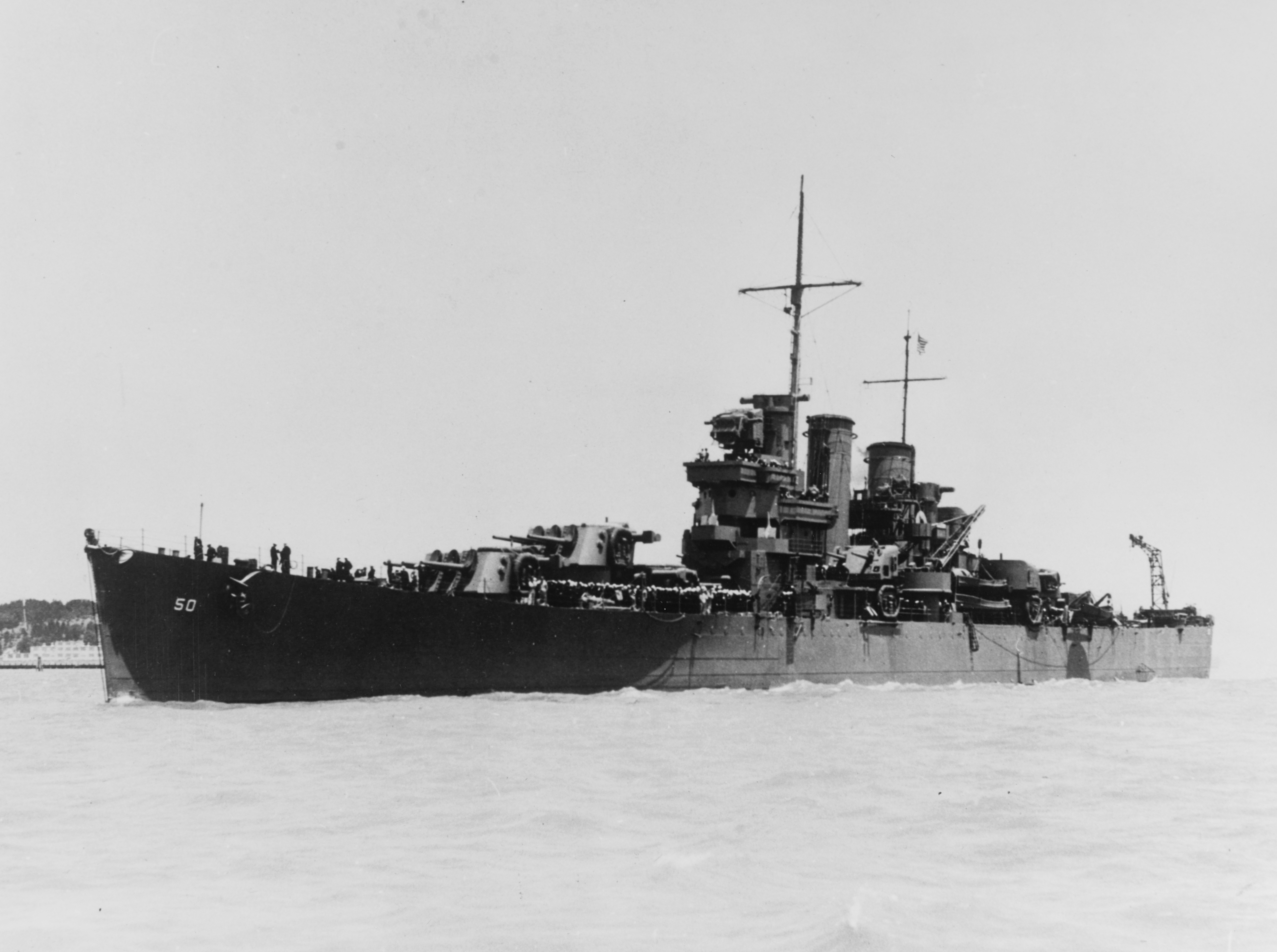 The U.S. Navy light cruiser USS Helena (CL-50) off the Mare Island Naval Shipyard, California (USA), following battle damage repairs and overhaul, 1 July 1942. This image has been retouched to censor radar antennas from the gun directors and masts.